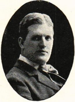 Carl Nathanael Holmdahl (1876-1936), Swedish physician